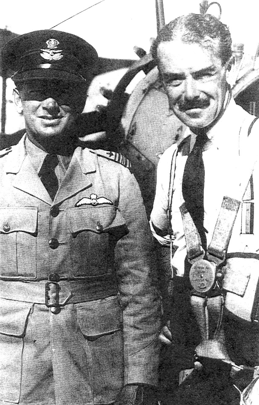 Chief Flying Instructor Squadron Leader (later Air Chief Marshal Sir) Frederick Scherger (left) and Federal Treasurer Richard Casey (later Lord Casey), at RAAF Point Cook, Victoria. By government direction, Scherger was teaching Casey to fly.